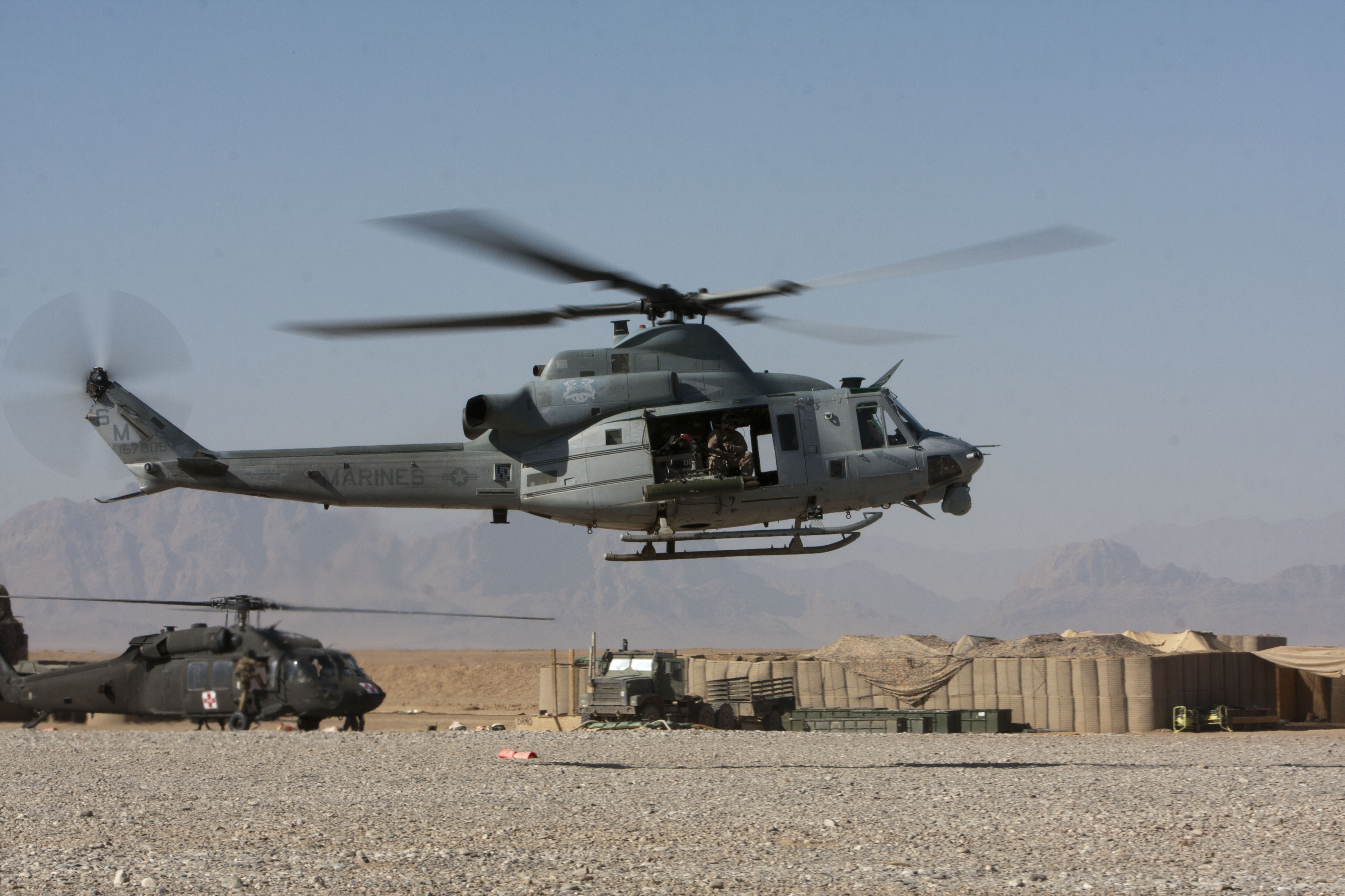 A U.S. Marine Corps UH-1Y Venom helicopter (top) of Marine Light Attack Helicopter Squadron 369 (HMLA-369) returns after aiding a U.S. Army HH-60M Blackhawk medical evacuation (medevac) helicopter of Army Task Force Lift "Dust Off", Charlie Company 1-171, Aviation Regiment, Forward Operating Base Edinburgh, Helmand Province, Afghanistan, Dec. 9, 2011. HMLA-369 provides close air support for medevacs and ground units conducting combat operations throughout the Helmand Province..